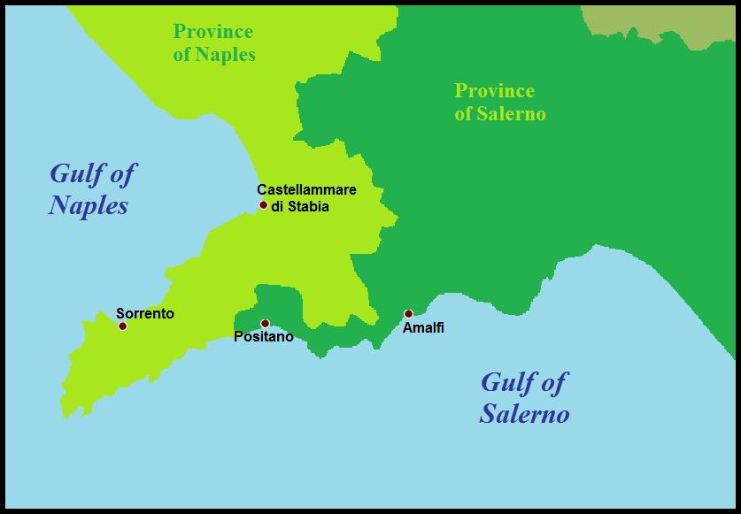 The Sorrentine Peninsula and border of the two provinces of Naples *(light green) and Salerno (dark green) and major tourist resorts.